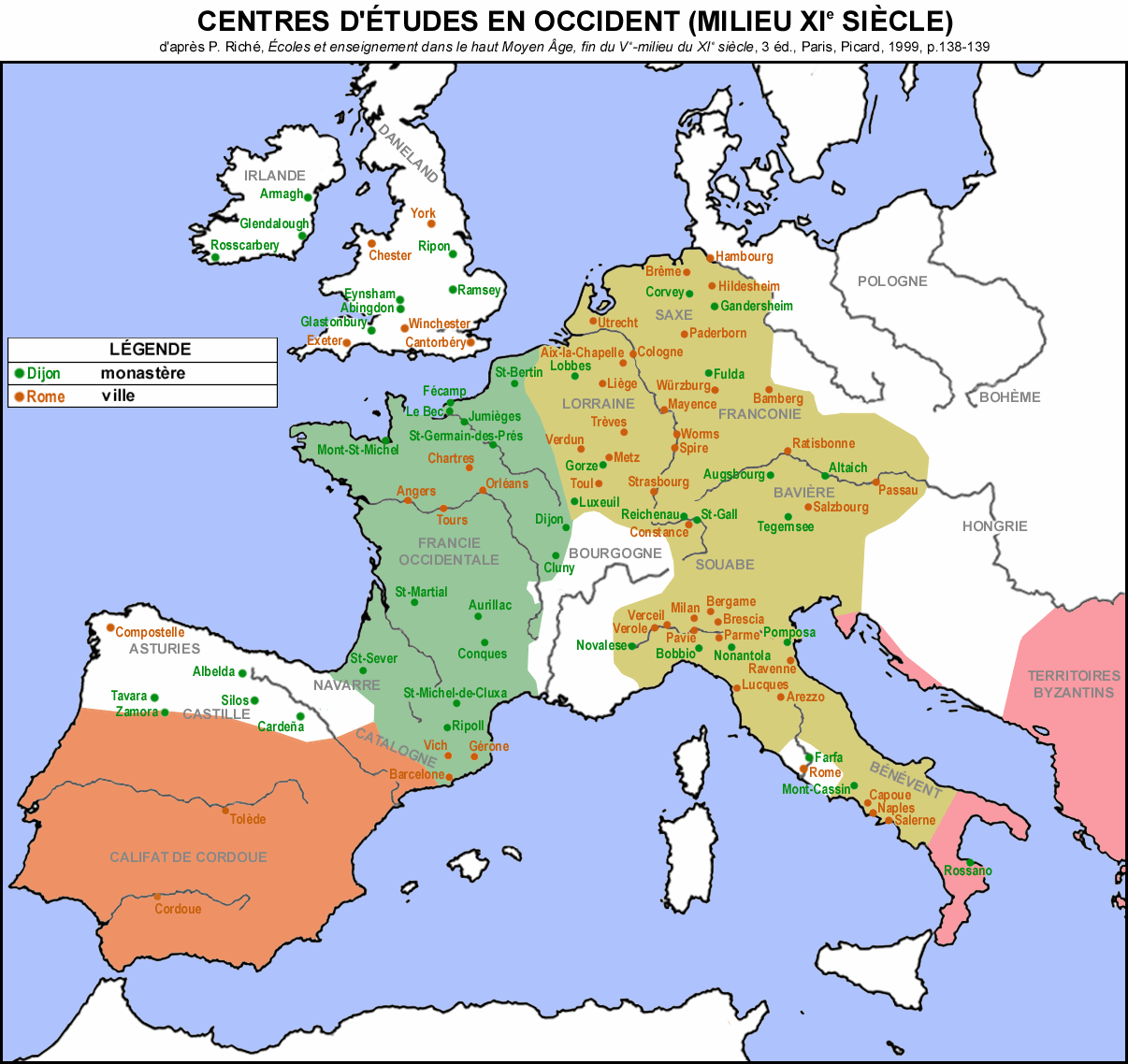 Centers of Studis in Western Europe (middle of 11th century) D'après/After P. Riché, Écoles et enseignement dans le haut Moyen Âge, fin du Ve-milieu du XIe siècle, 3e éd., Paris, Picard, 1999, p.138-139